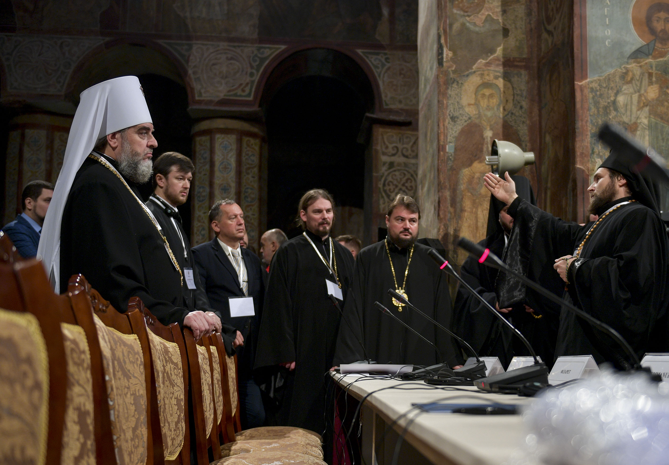 Unification council of Orthodox Church in Ukraine